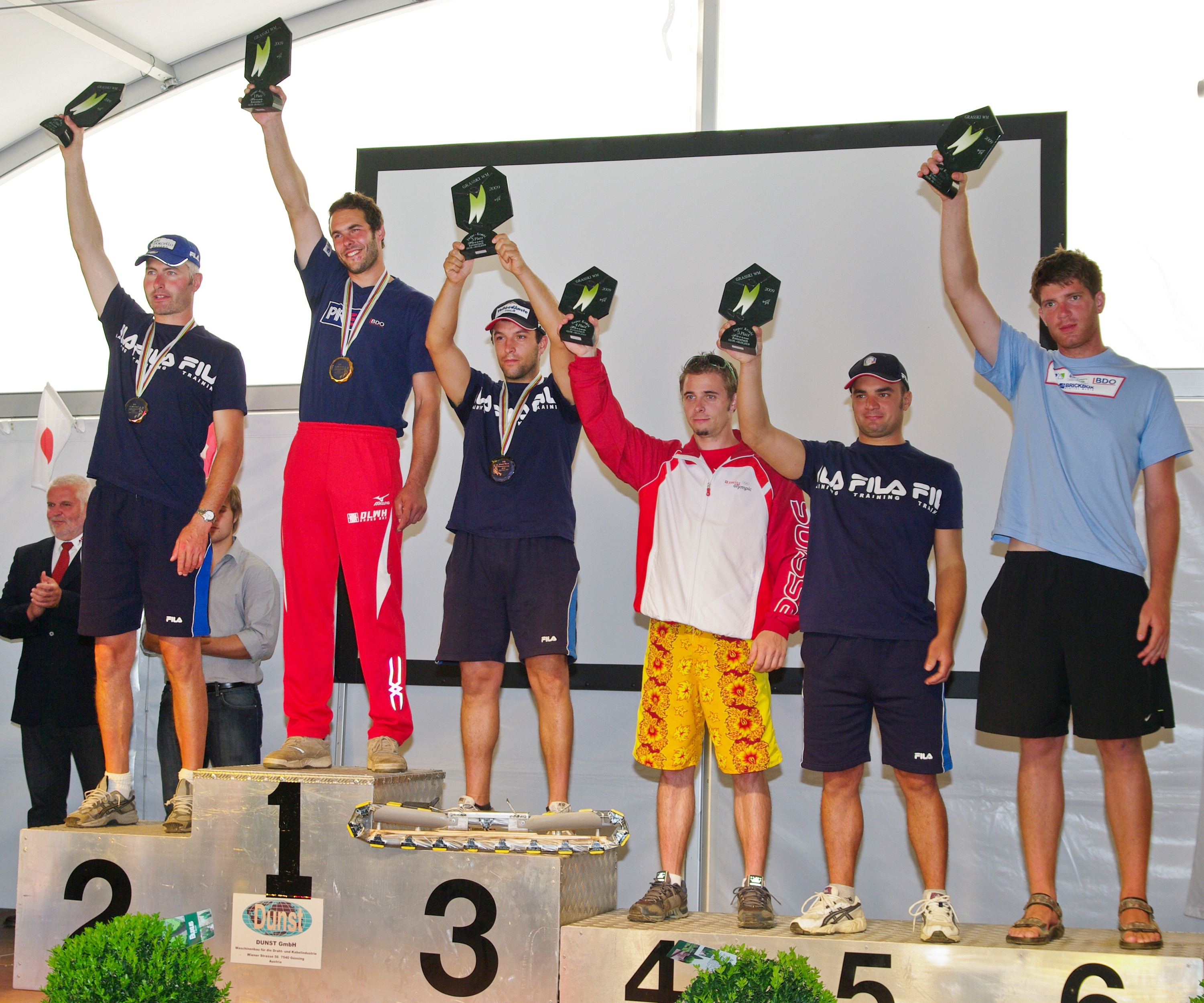 Grass Skiing World Championships 2009 in Rettenbach, Austria. Men's Super Combined, Prize Giving Ceremony: 1st Place: Jan Němec (CZE), 2nd Place: Riccardo Lorenzone (ITA), 3rd Place: Edoardo Frau (ITA), 4th Place: Domenic Senn (SUI), 5th Place: Pietro Guerini (ITA), 6. Place: Jan Gardavský (CZE)